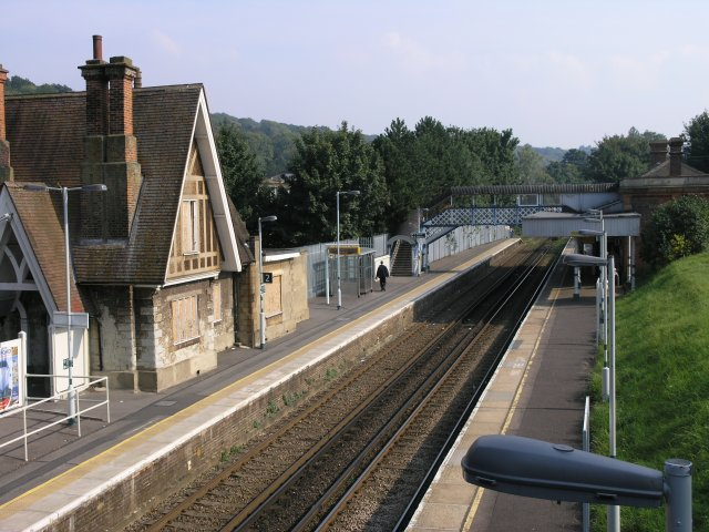 Kenley Station. Kenley Railway station. Notice the boarded up station house.